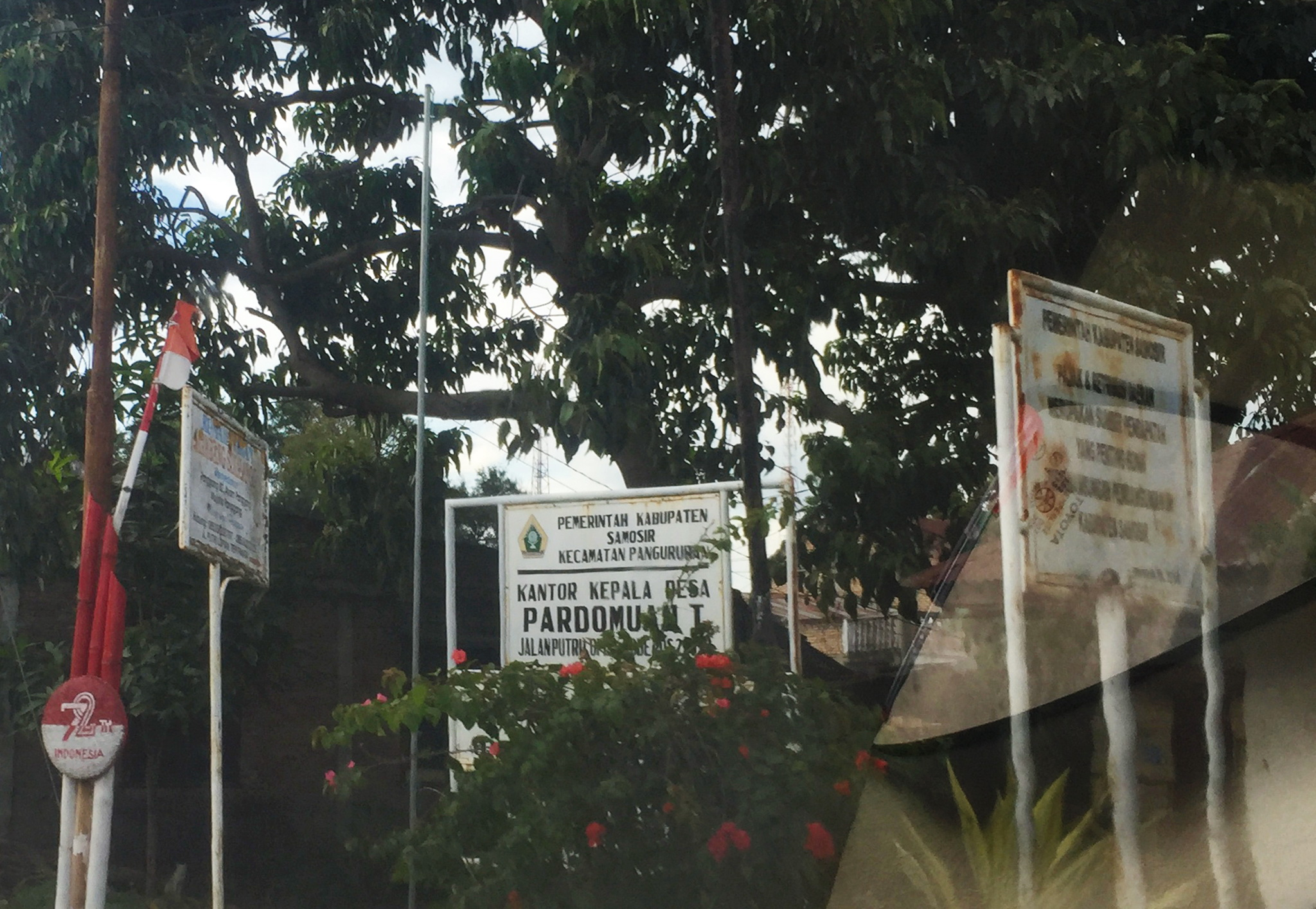 office of Pardomuan I, Pangururan, Samosir